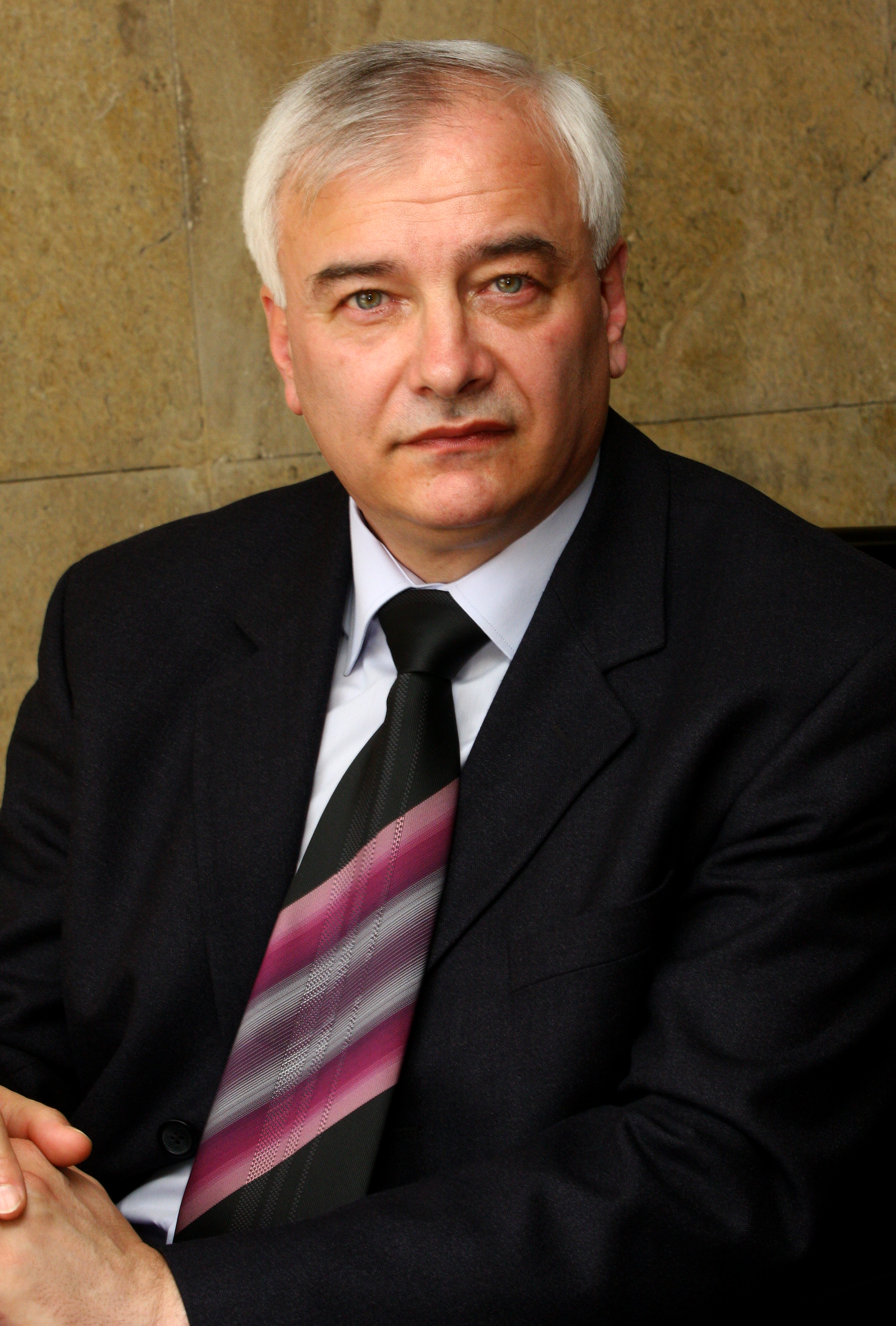 Sofia, 2010